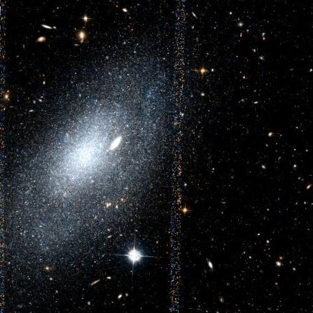 UGC 9405 - Hubble Space Telescope - The Geometry and Kinematics of the Local Volume - HST Proposal 12546